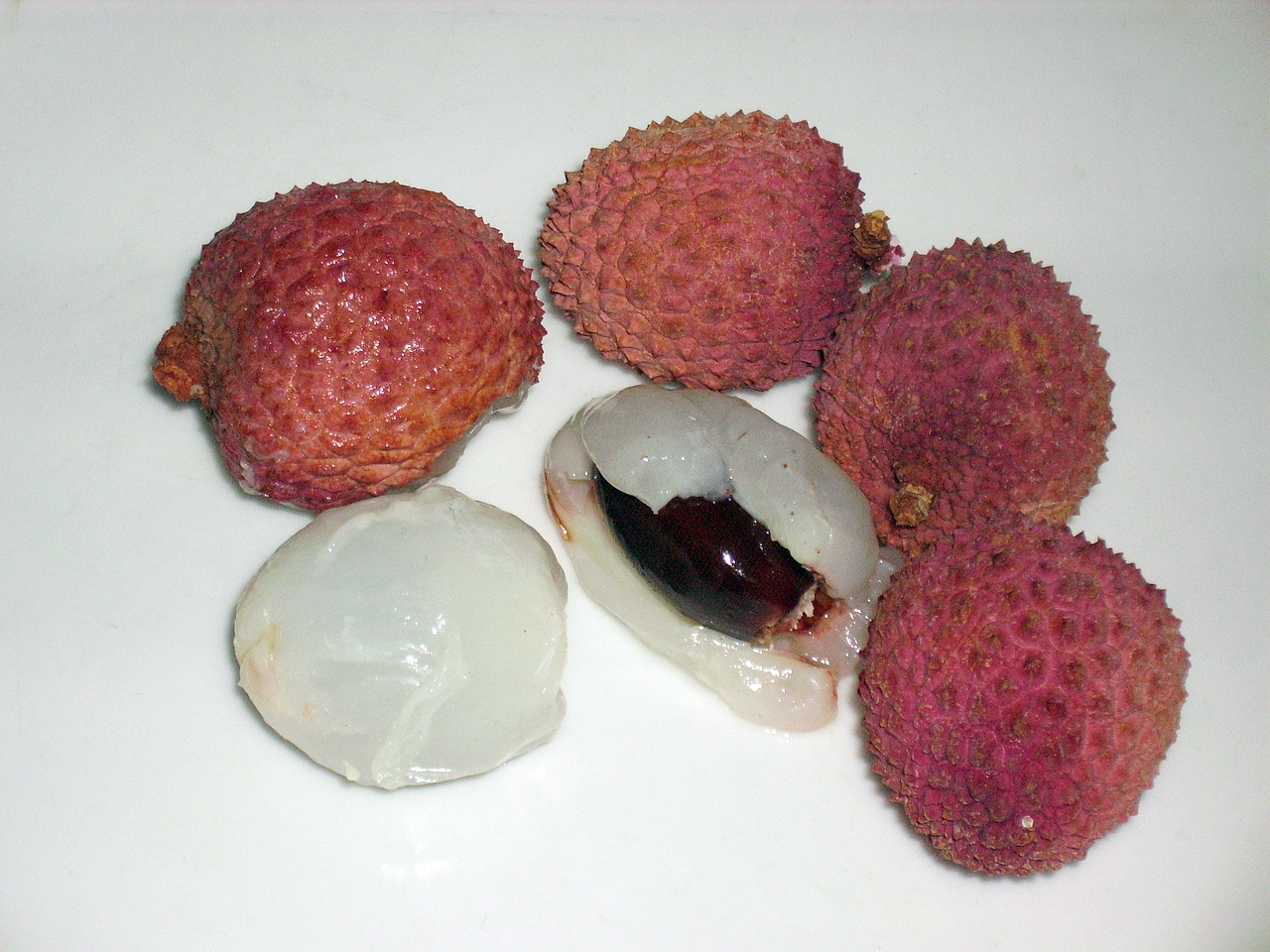 Some Lychee fruits (Litchi chinensis)